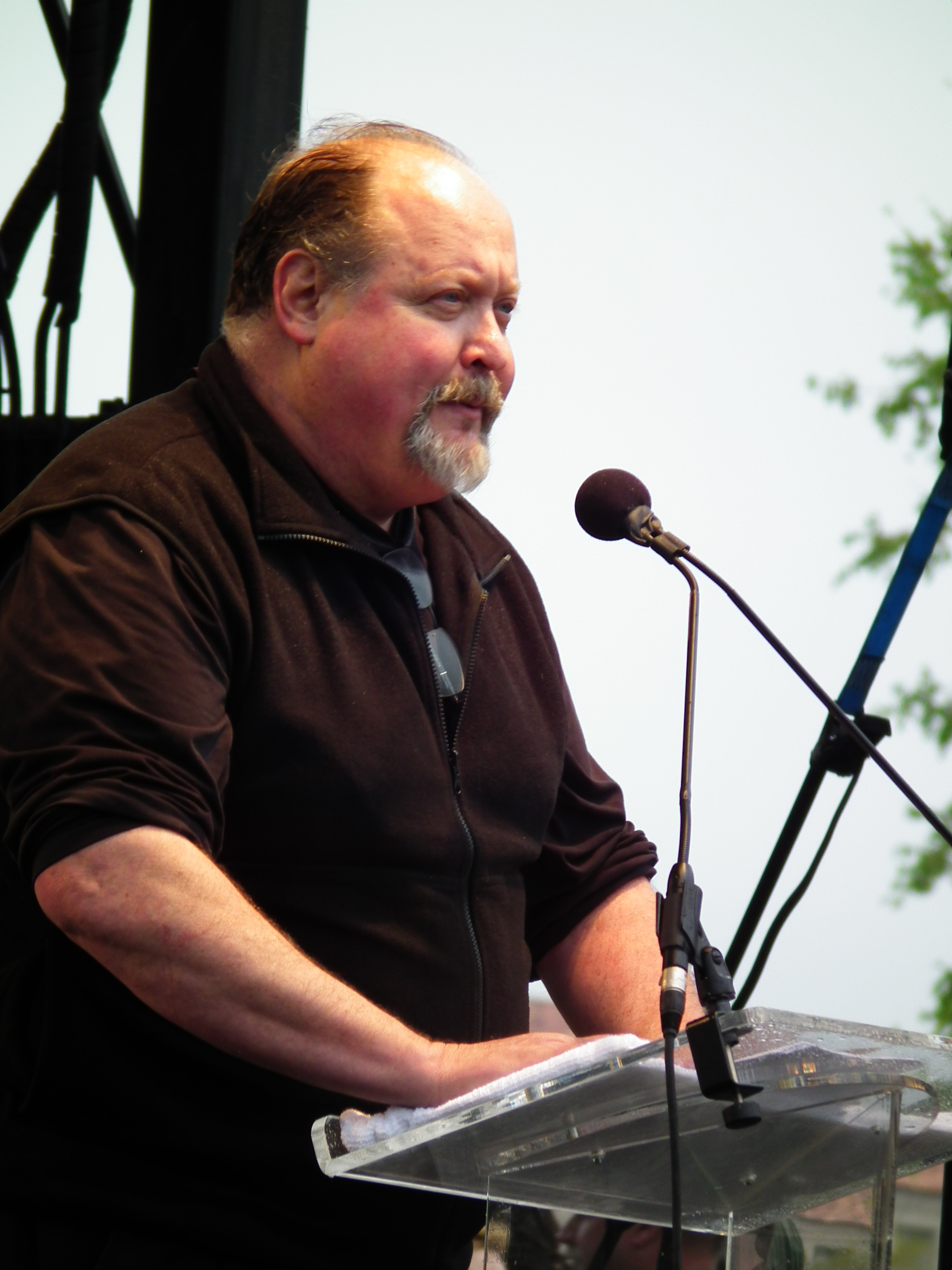 Nate Phelps The (estranged) son of Westboro Baptist Church leader Fred Phelps, Nate severed ties with his notorious family decades ago and now speaks out in favor of LGBT rights and raises awareness of religion-based child abuse.